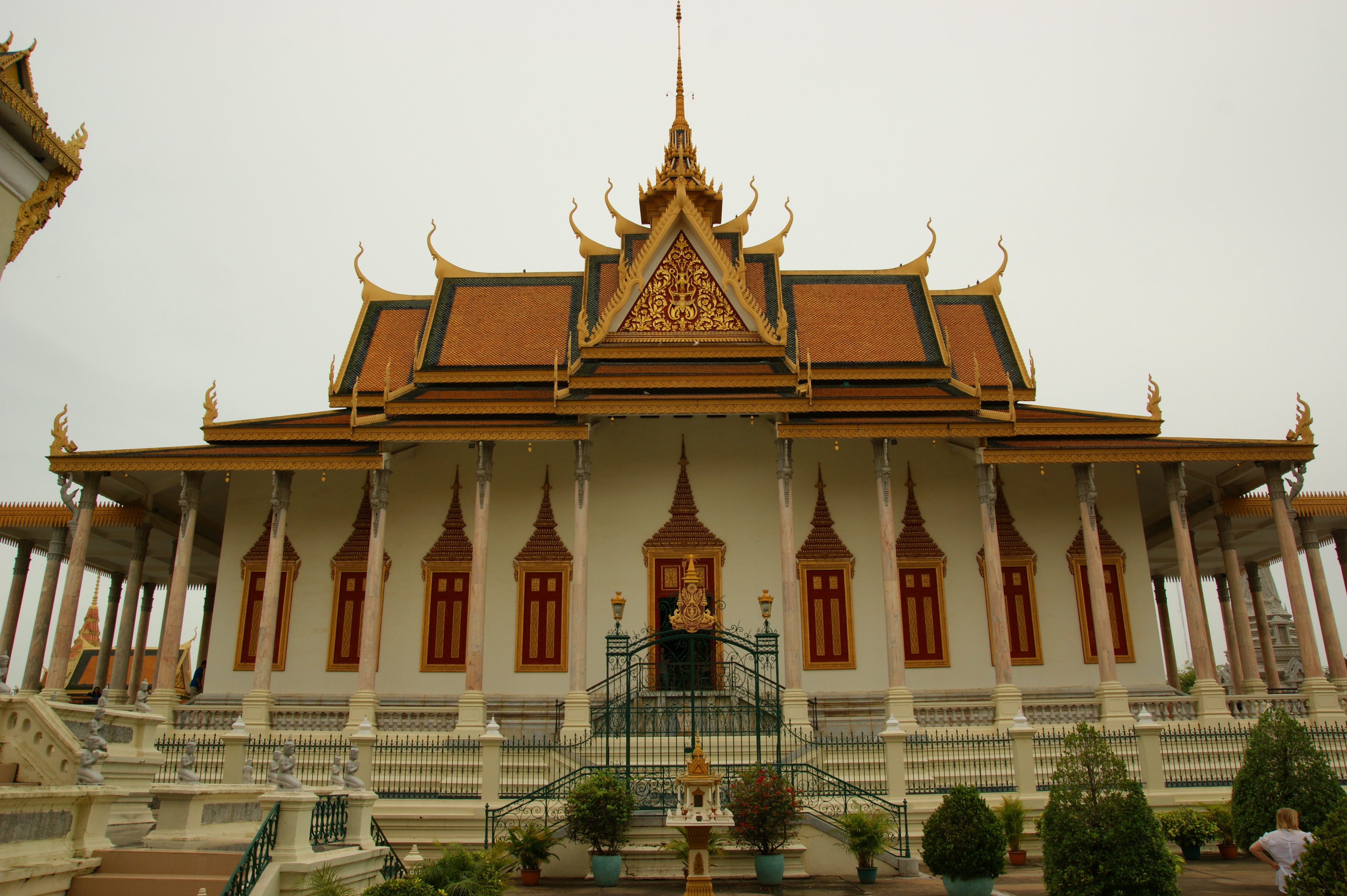 The 'Silver Pagoda' sits next to the Royal Palace of Cambodia's royal palace separated by a walled walkway, but within the same larger walled compound. The Silver Pagoda's proper name is Wat Preah Keo Morokat, which means The Temple of the Emerald Buddha, but it has received the common name or title of 'Silver Pagoda' after the solid silver floor tiles which adorns the temple building. The pagoda compound as a whole contains several structures and gardens, the primary building being the temple Wat Preah Keo Morokat and other structures including a library, various stupas, shrines, monuments, minor buildings and the galleries of the Reamker. Wat Preah Keo Morokat is unique in several ways. It is the pagoda where the King meets with monks to listen to their sermons and where some Royal ceremonies are performed. It houses a collection of priceless Buddhist and historical objects including the "Emerald Buddha." And, unlike most pagodas, no monks live at the pagoda. The temple building, library and Reamker galleries were first constructed between 1892 and 1902 under King Norodom. (1860-1904)